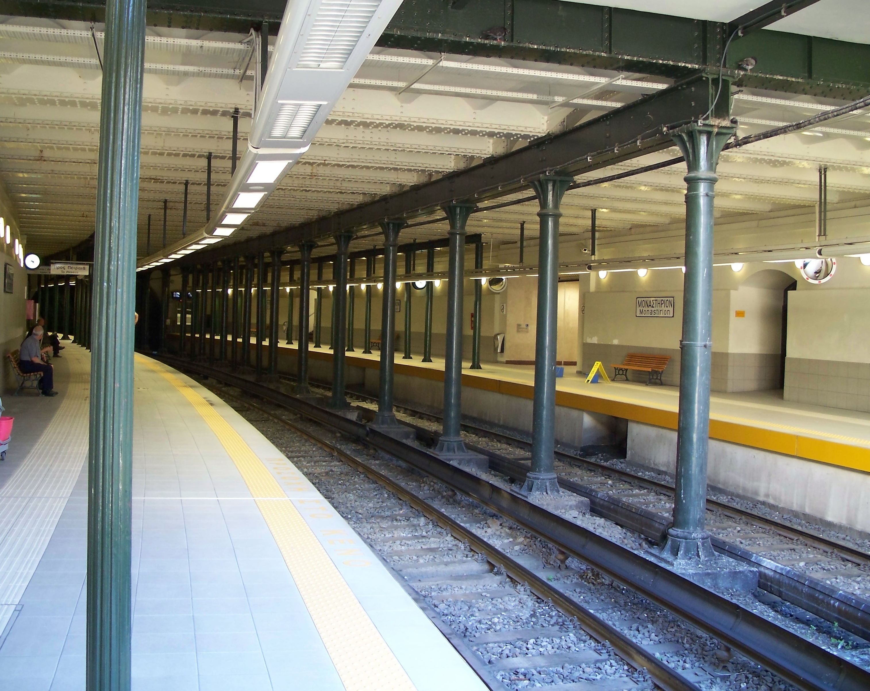 The underground part of the old Monastiraki station. The big door at far right is the connection with the Metro line 3.